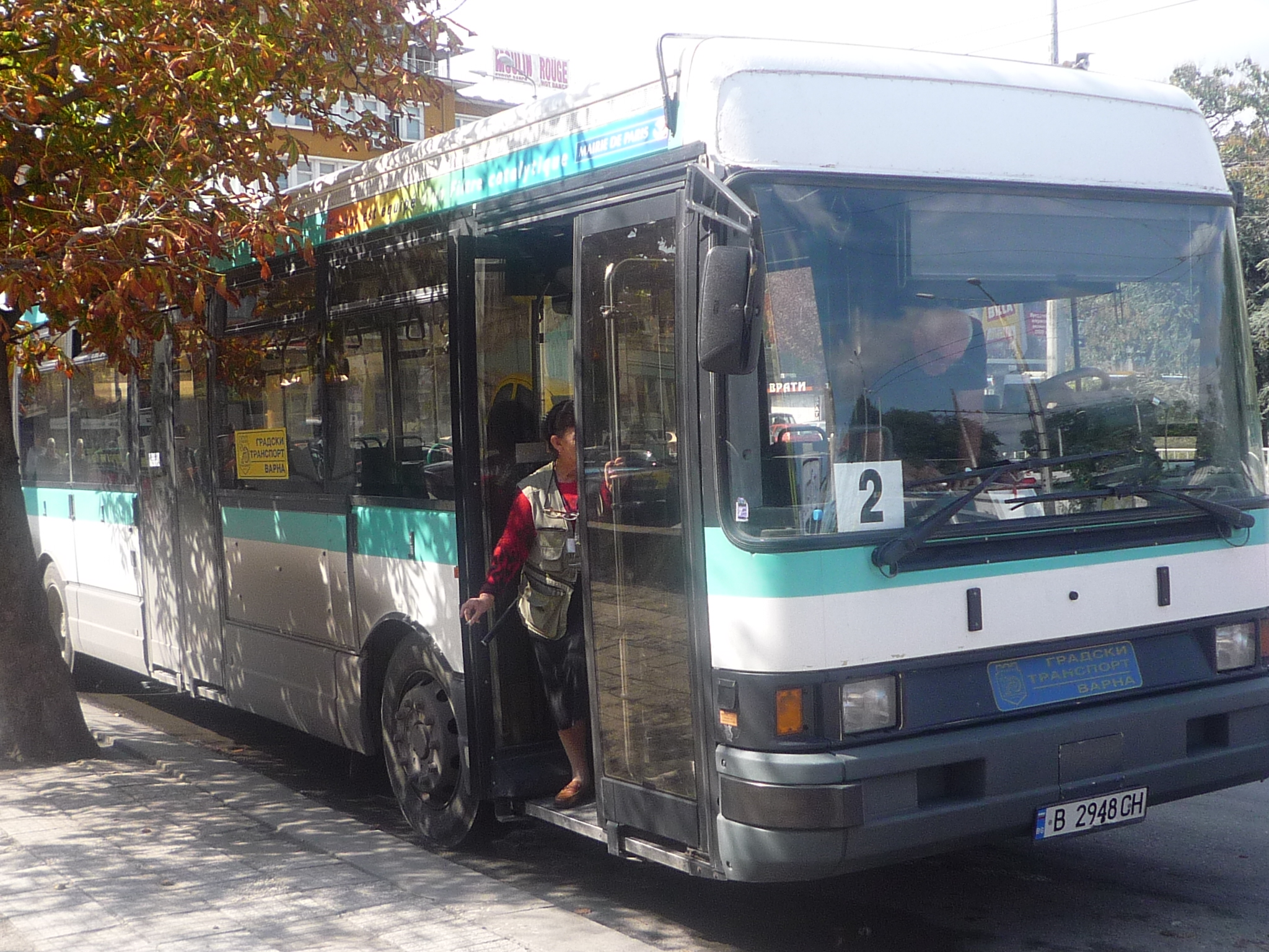 Renault R312 bus (reg. B 2948CH) in Varna, Bulgaria from parisian ones.